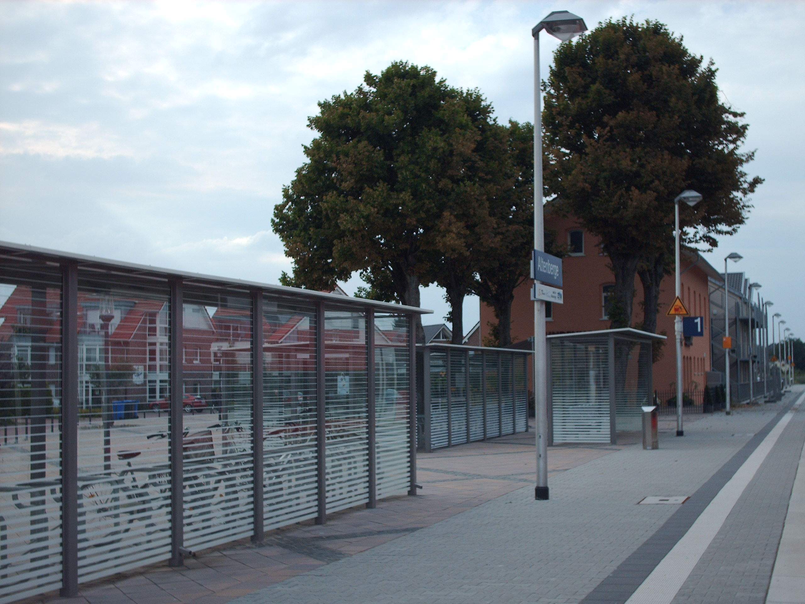 Altenberge station, Altenberge, Germany check usage